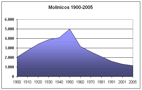 Molinicos' population, Albacete, Spain, (1900-2005). Own work, given to PD. Source: Instituto Nacional de Estadística.